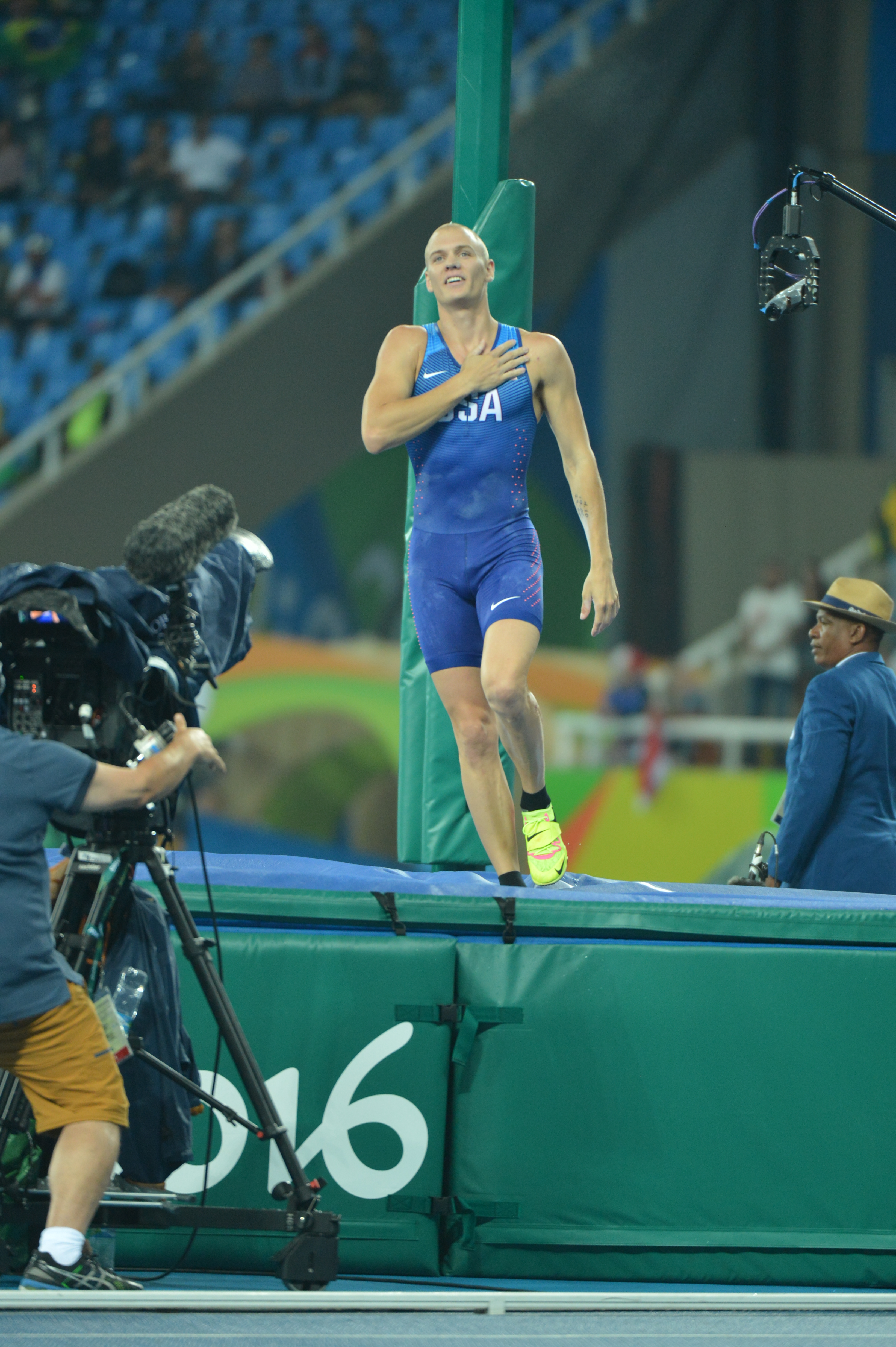 U.S. Army Reserve 2nd Lt. Sam Kendricks of Oxford, Mississippi wins the bronze medal in the men's pole vault with a mark of 5.85 meters at the 2016 Rio Olympic Games on Aug. 15 in Rio de Janeiro. Brazil's Thiago Braz de Silva took the gold with an Olympic record mark of 6.03 meters. France's Renaud Lavillenie claimed the silver at 5.98 meters.